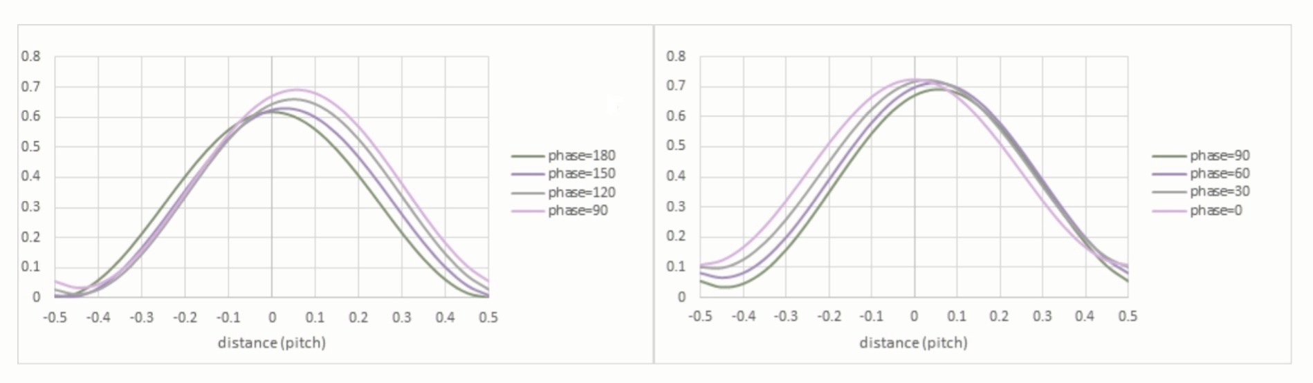 A phase shift on the mask (even with weak amplitude, as in a faintly bright region) can both shift the image as well as change its width. Ref.